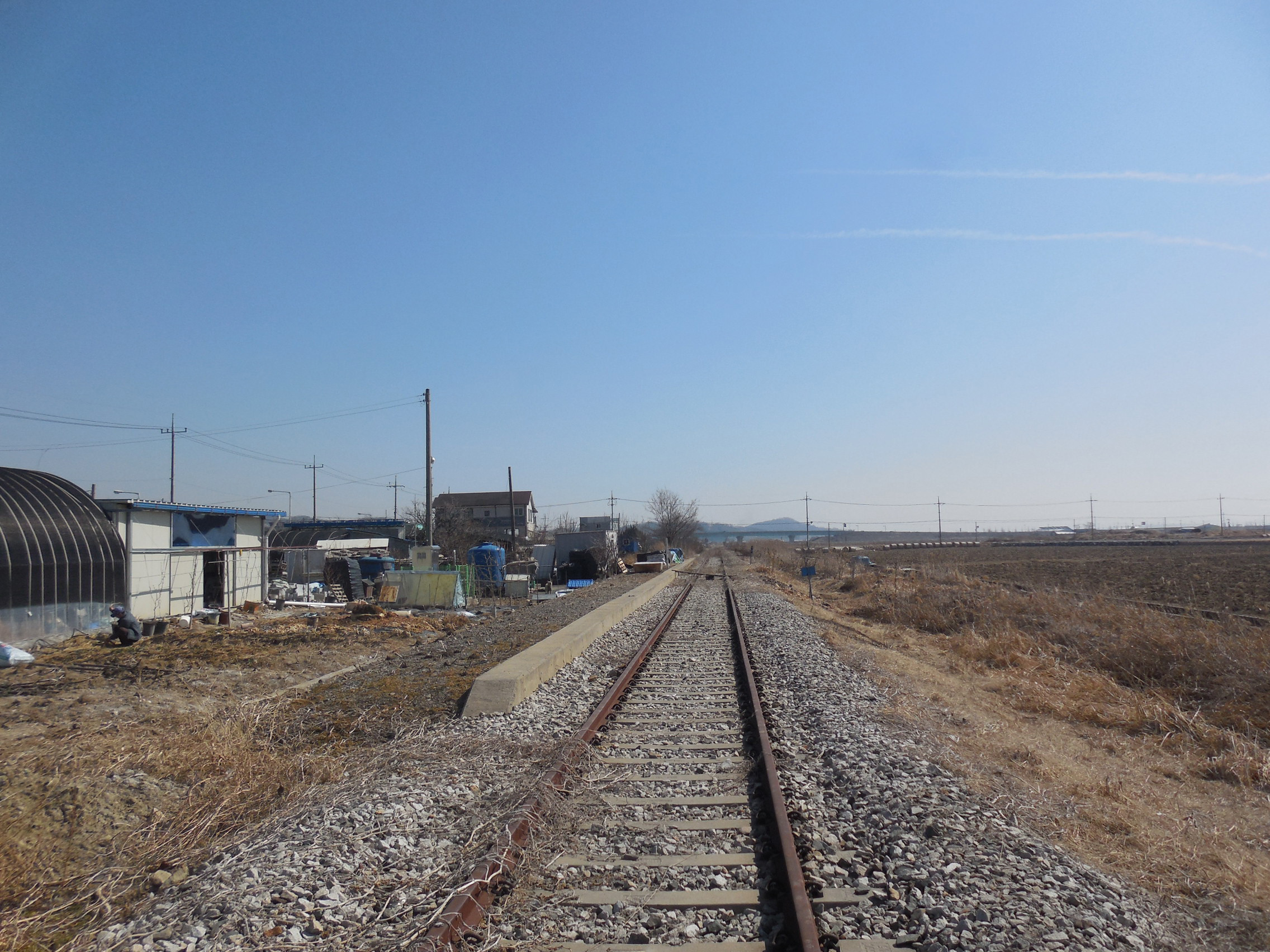 Korail Gunsanhwamul Line Gaejeong Station.